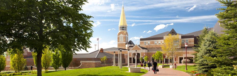 University of Denver campus.